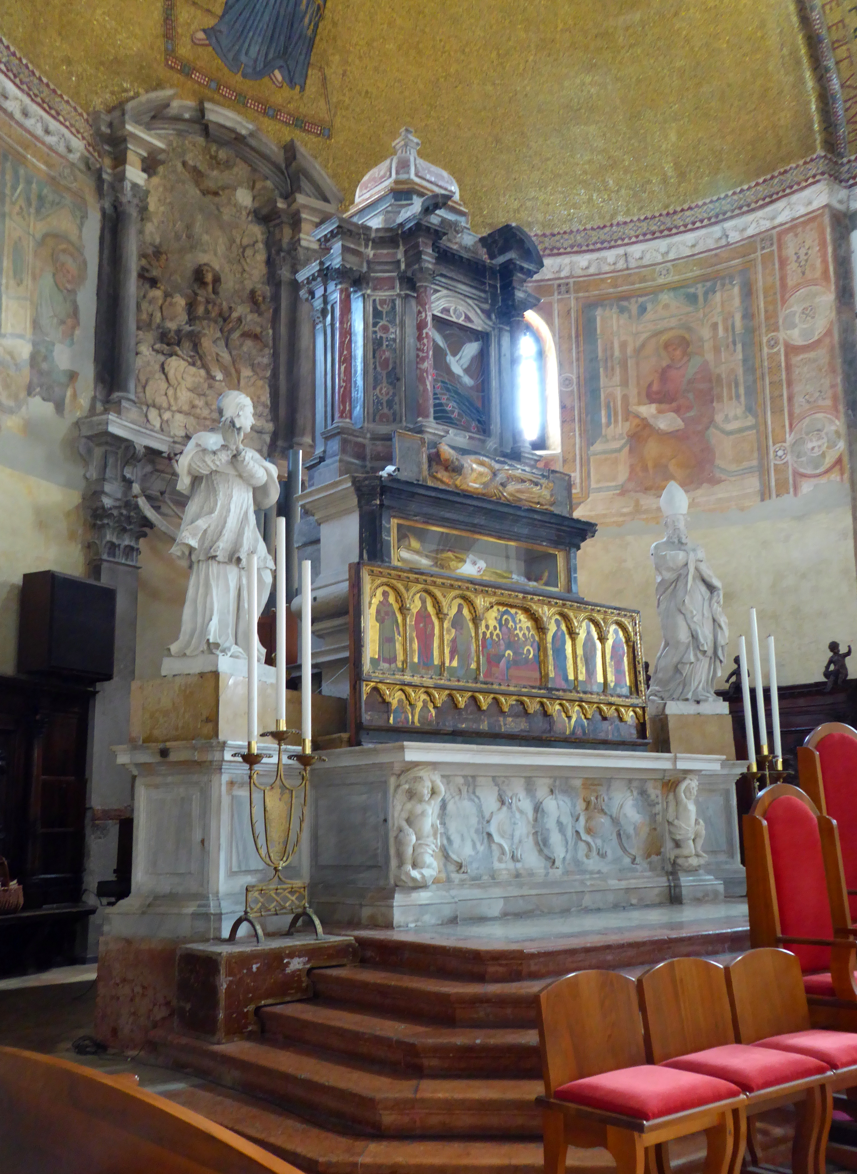 The central altar in the Santa Maria e San Donato, Murano.